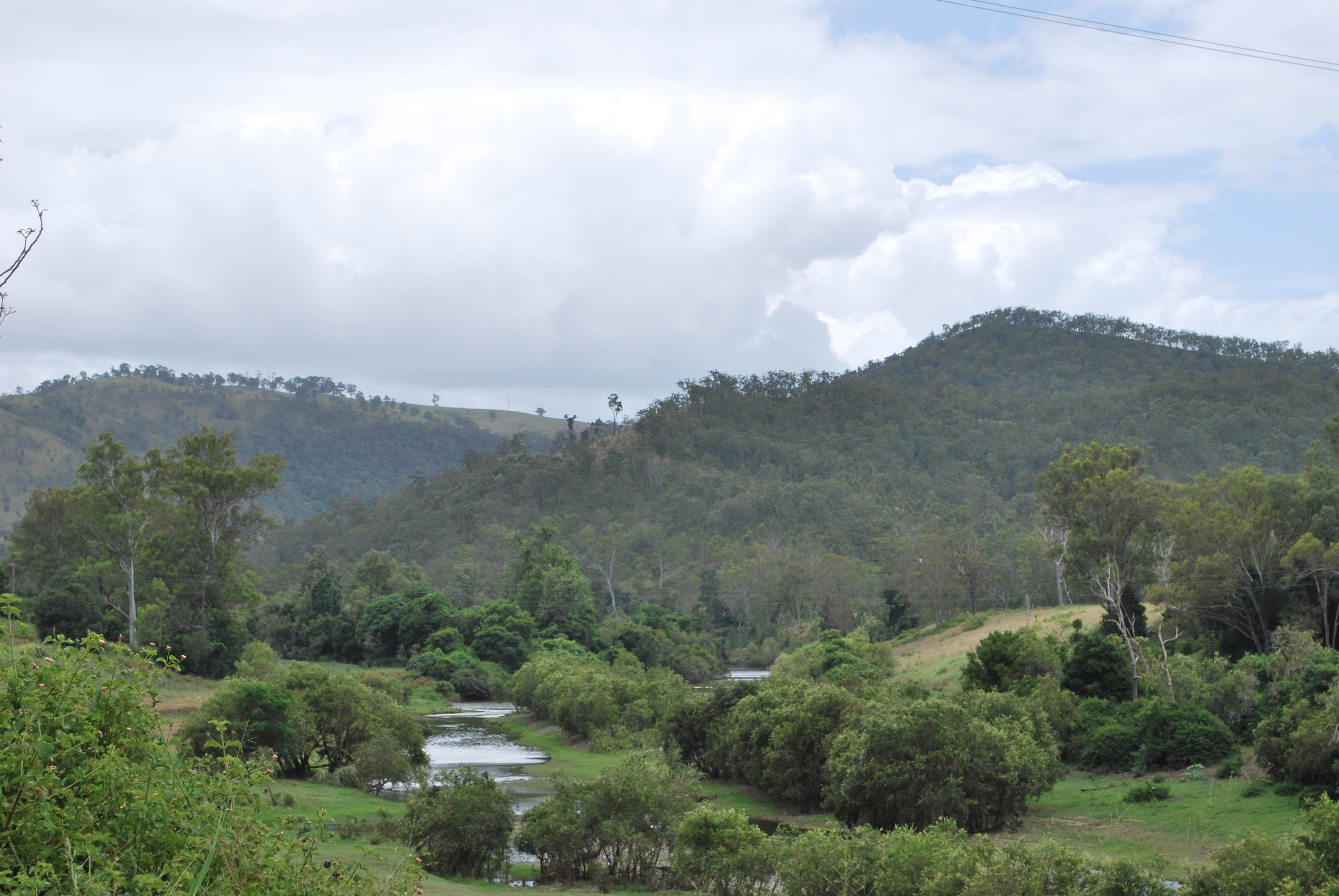 The upper reaches of the Brisbane River near Linville, Queensland